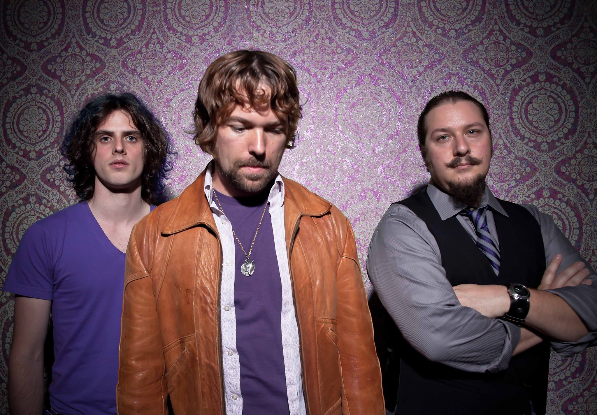 Heavy Glow photo taken in my studio in San Diego, CA 2013